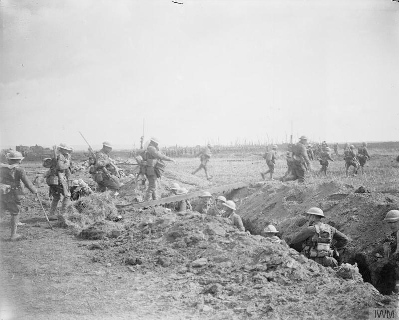 The Battle of Arras, April-may 1917 British infantry moving across assembly trenches in support of the initial assault on the opening day of the Battle of Arras, 9 April 1917.